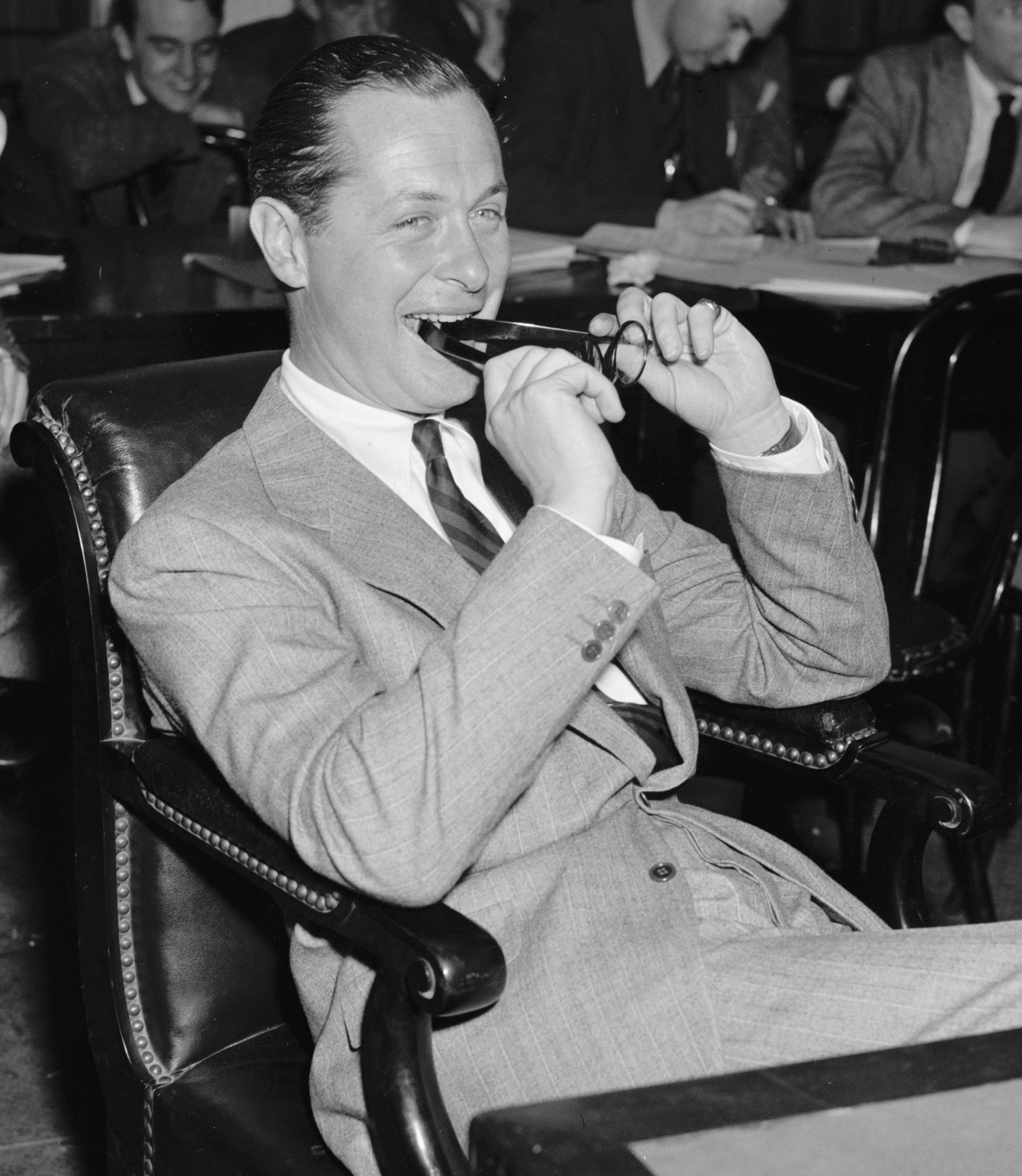 Robert Montgomery before a senate committee in Washington, D.C. on April 3, 1939. The S.R.O. sign was hung out today at the Senate Interstate Commerce Committee Hearing as Montgomery appeared to express his opposition to a bill designed to prohibit "Block booking" and "Blind selling"—two trade practices which curb the discretion that a movie house owner has in selecting pictures to be shown in his community. Speaking as a former President of the Screen Actors Guild, Montgomery told the Committee that the Guild and their lawyers have come to the very definite conclusion that if the bill should become a law it would cut in half the production schedules of the motion picture industry.